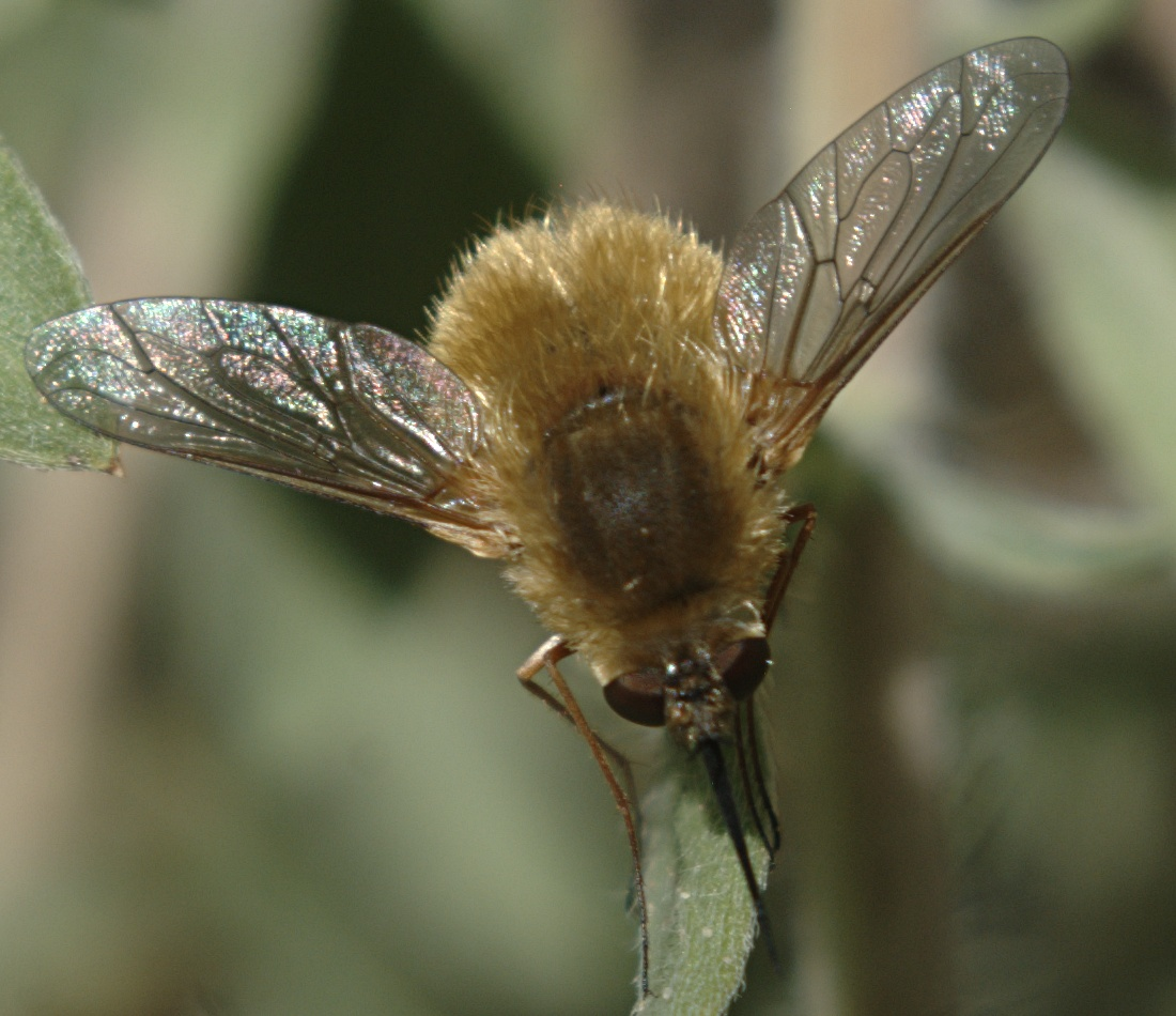 Back view of bombyliid fly of the genus Systoechus on Solanum elaeagnifolium, my yard, Española, New Mexico. Same individual as File:Systoechus_sp_facial.jpg.